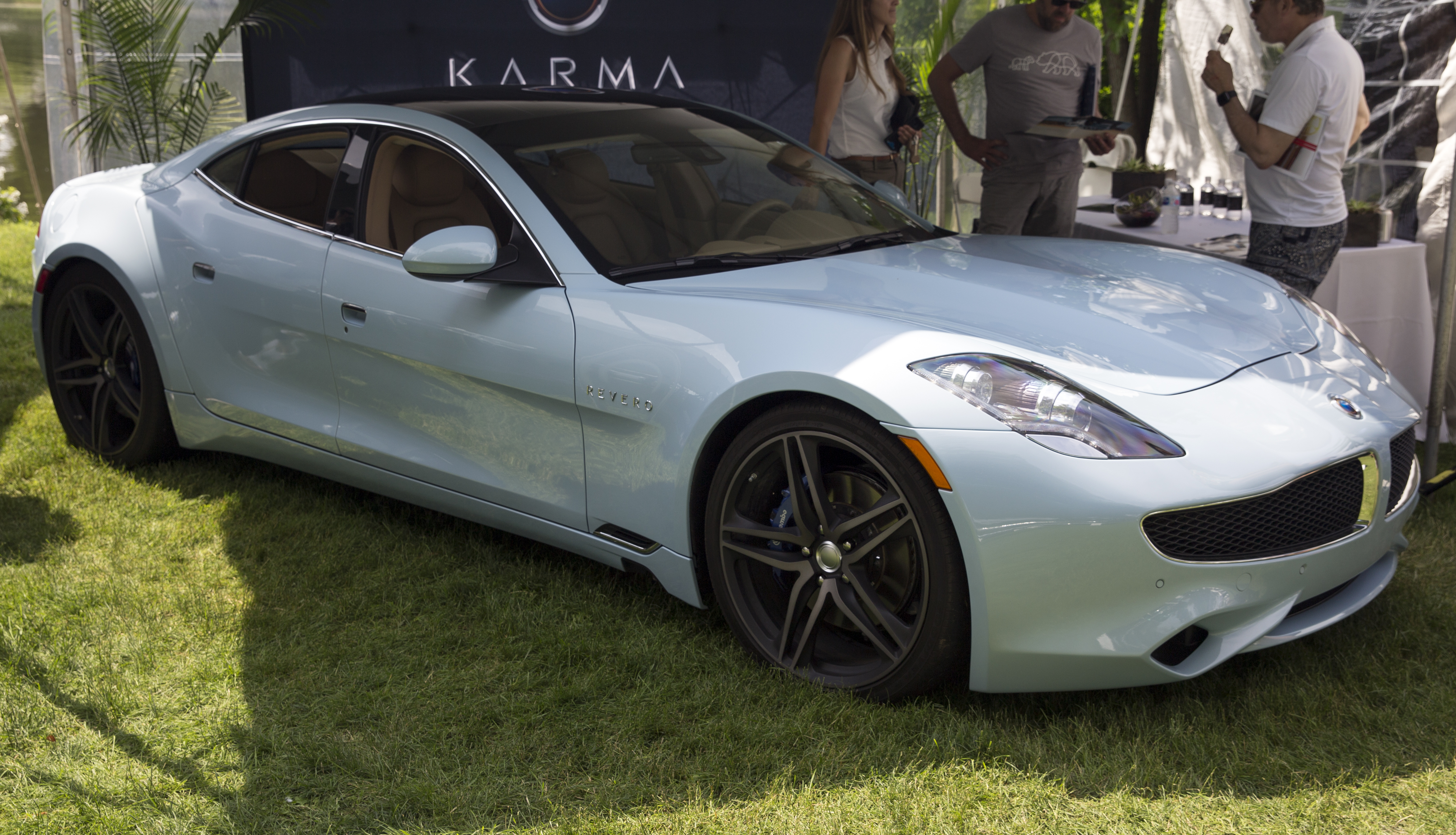 2018 Karma Revero displayed at the 2018 Greenwich Concours d'Elegance.